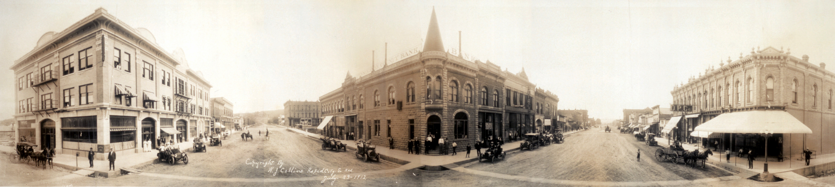 Panoramic view of 6th and Main Streets in Rapid City, South Dakota.